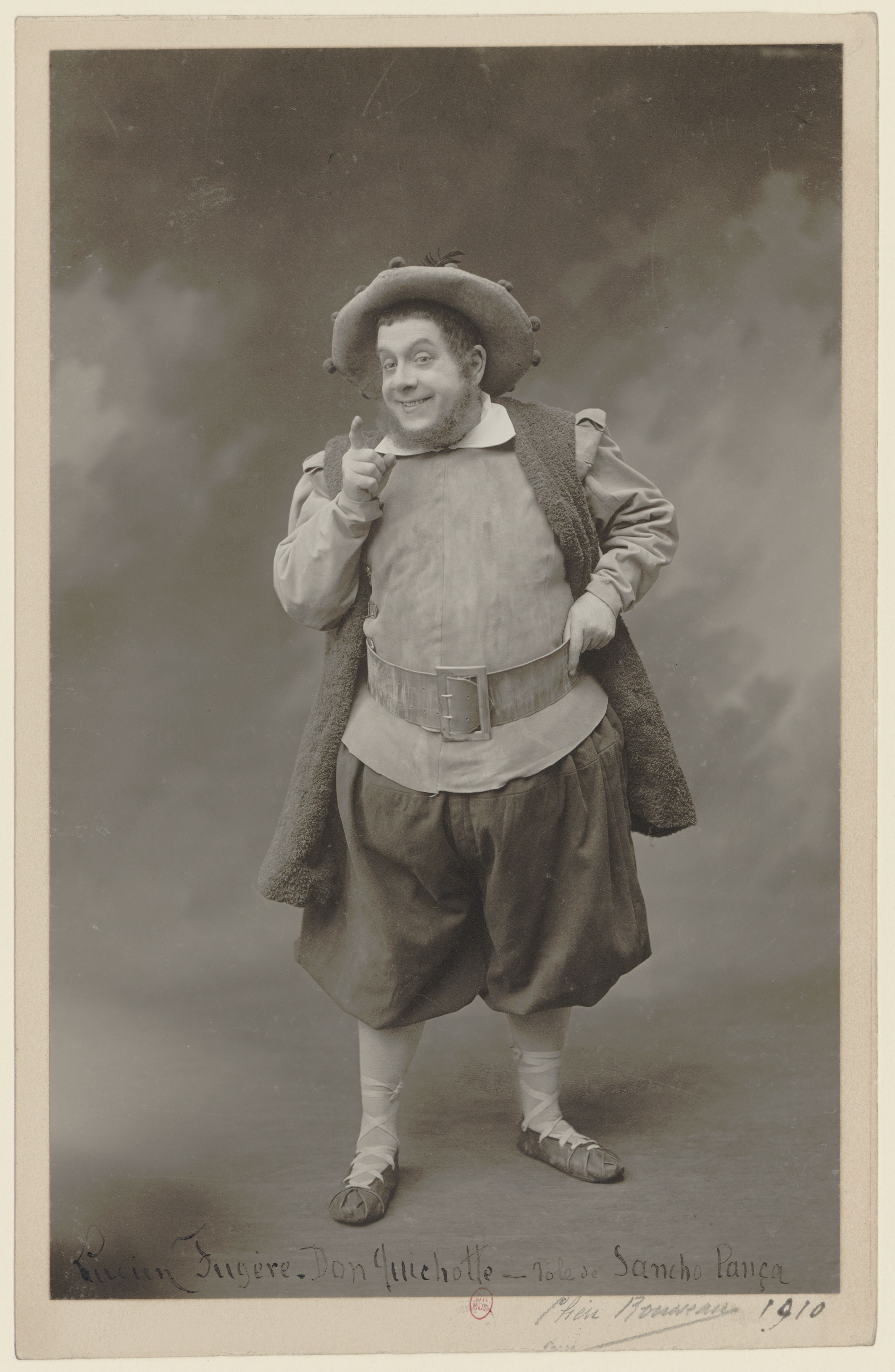 French opera singer Lucien Fugère (1848-1935) as Sancho Pansa in Don Quichotte by Jules Massenet.